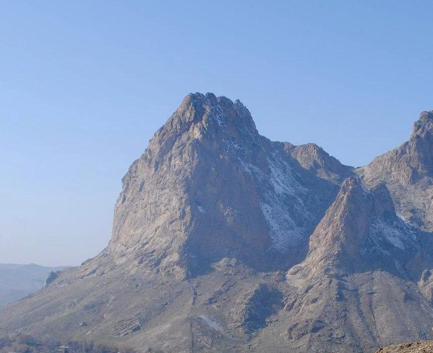 Alinja mountain (1821) in Julfa Rayon of Azerbaijan.